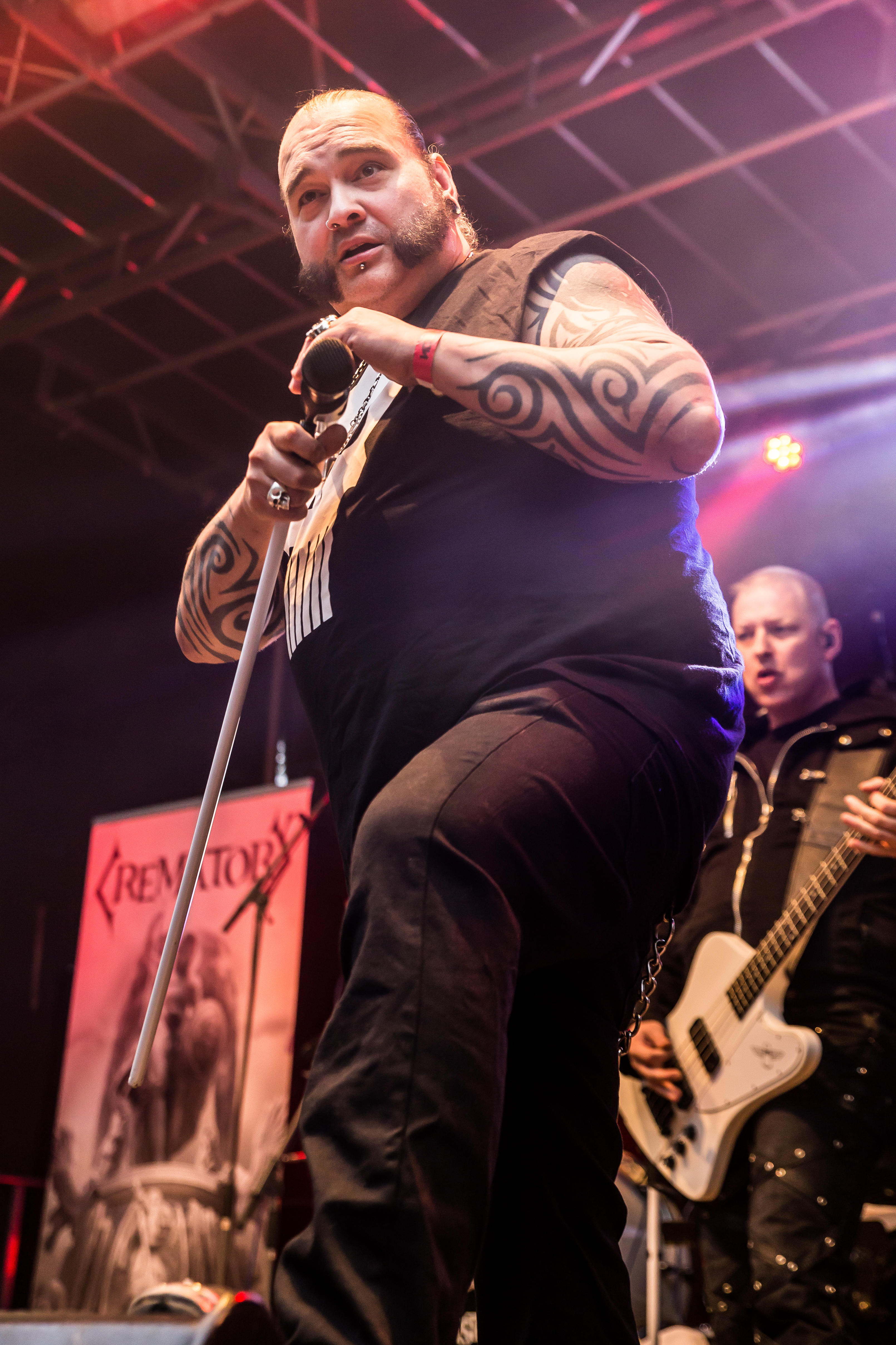 The German gothic metal band Crematory at the Nocturnal Culture Night 12 2017 in Deutzen/Germany.